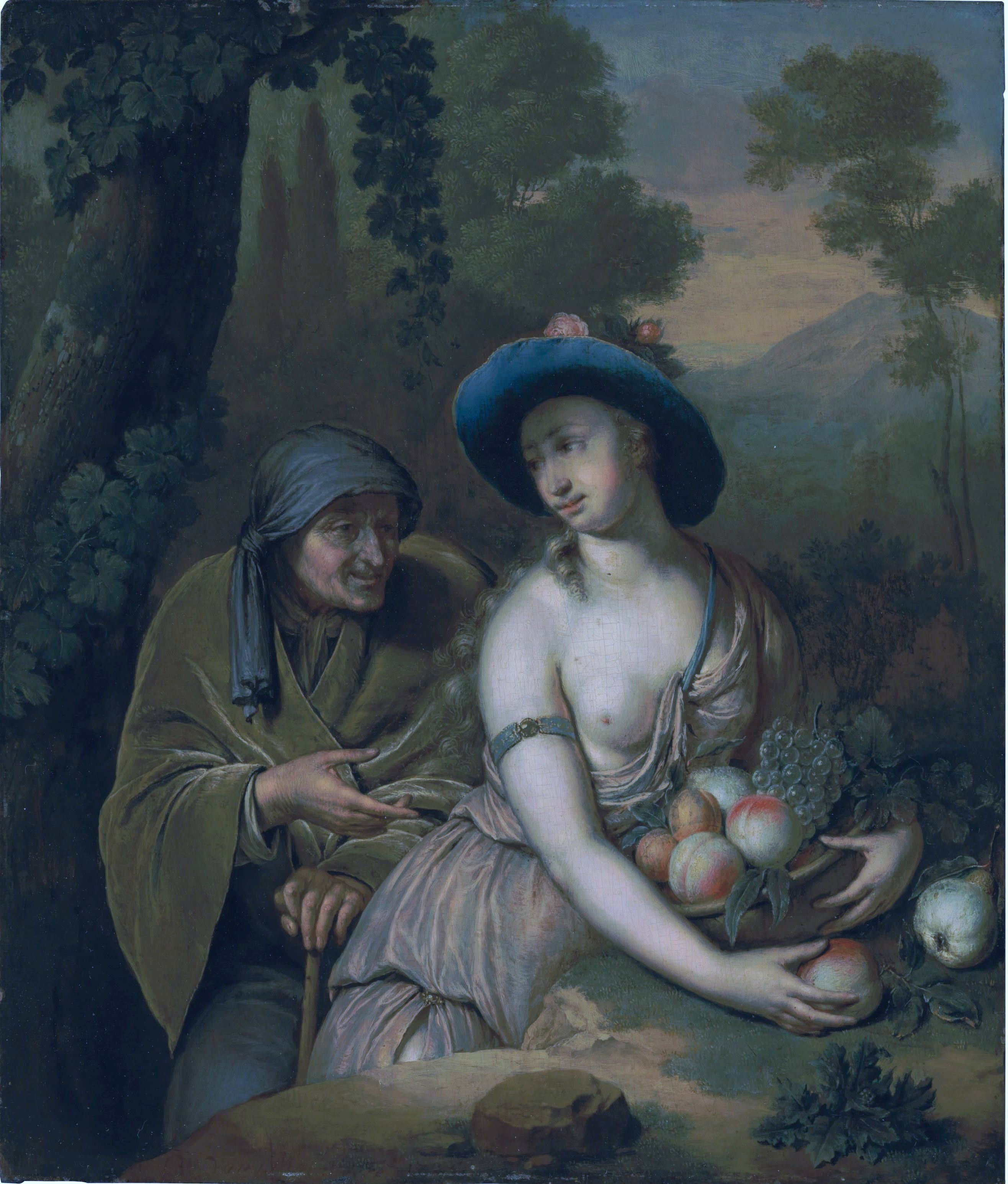 Vertumnus and Pomona by Willem van Mieris, 1725, oil on panel, 10 x 8.5 in. (25.4 x 21.6 cm.)